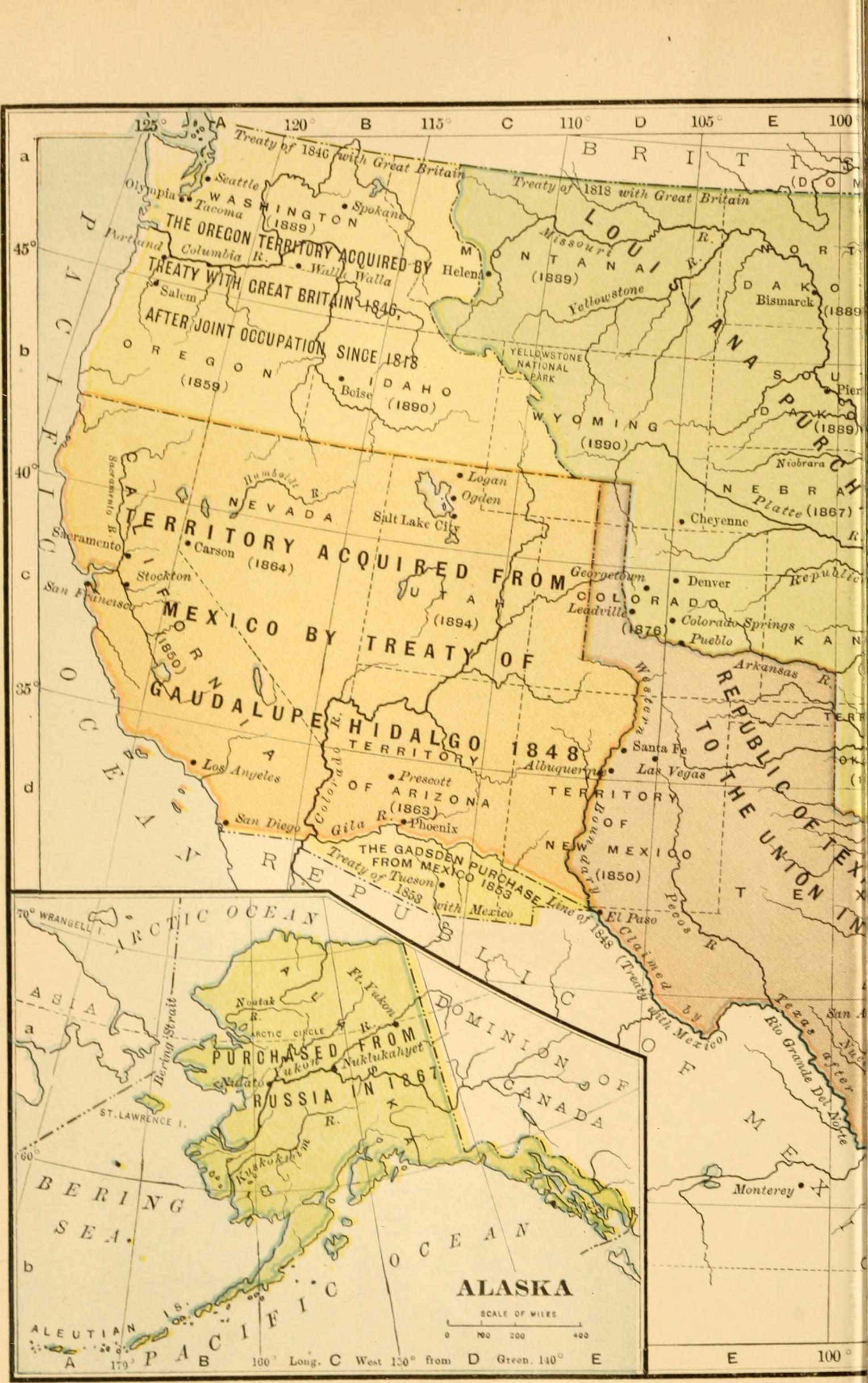 Title: A history of the United States for secondary schools Year: 1903 (1900s) Authors: Larned, J. N. (Josephus Nelson), 1836-1913 Subjects: Publisher: Boston, New York (etc.) Houghton, Mifflin and company Text Appearing Before Image: California, in 1850, Minnesota, in 1858, Oregon, in 1859,and Kansas in 18G1, adopted State constitutions whichprohibited slavery. By Act of Congress in 1862 it wasextinguished and prohibited in all the countrj- then re-maining in the territorial State which included eveiyregion atfected by the Compromise Acts of 1850, theKansas-Nebraska Act. and the Dred Scott Decision. I Text Appearing After Image: Map XV